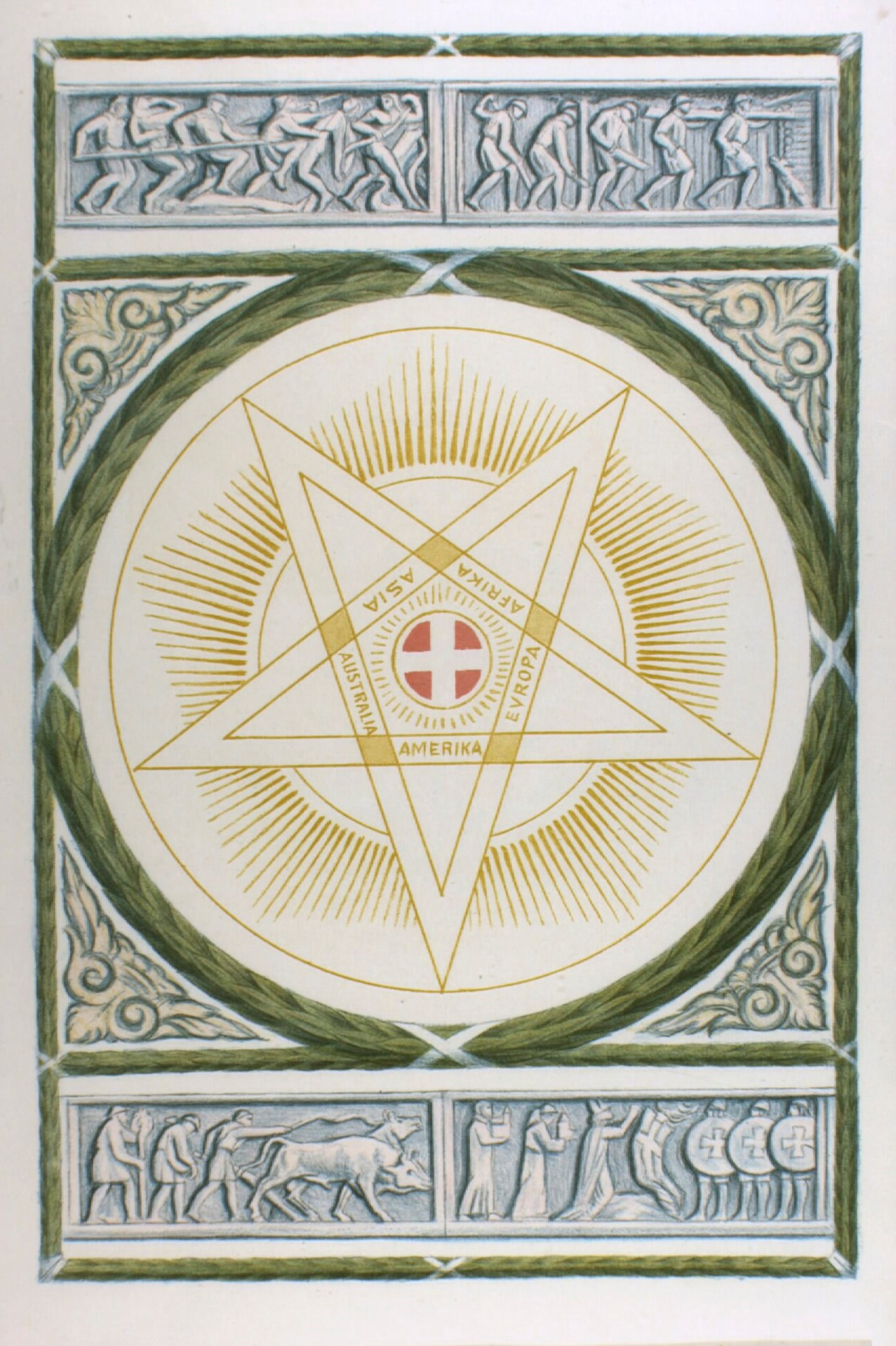 A lithography illustrating the design of the Memorial Mound in Søndermarken in Copenhagen, Denmark. The design of the floor with the five-pointed star is seen in the middle and some of the reliefs are seen at the top and bottom.